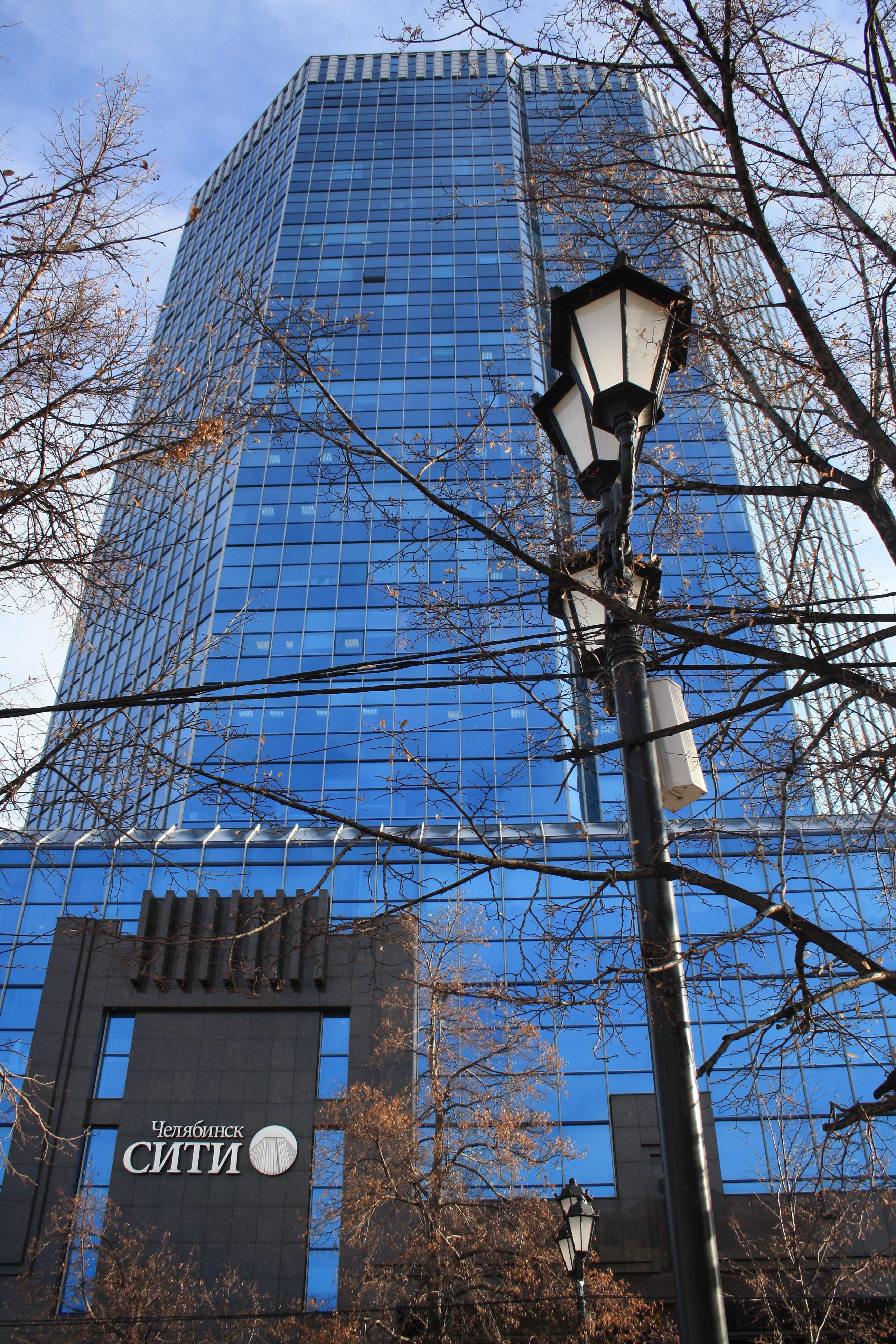 In Chelyabinsk